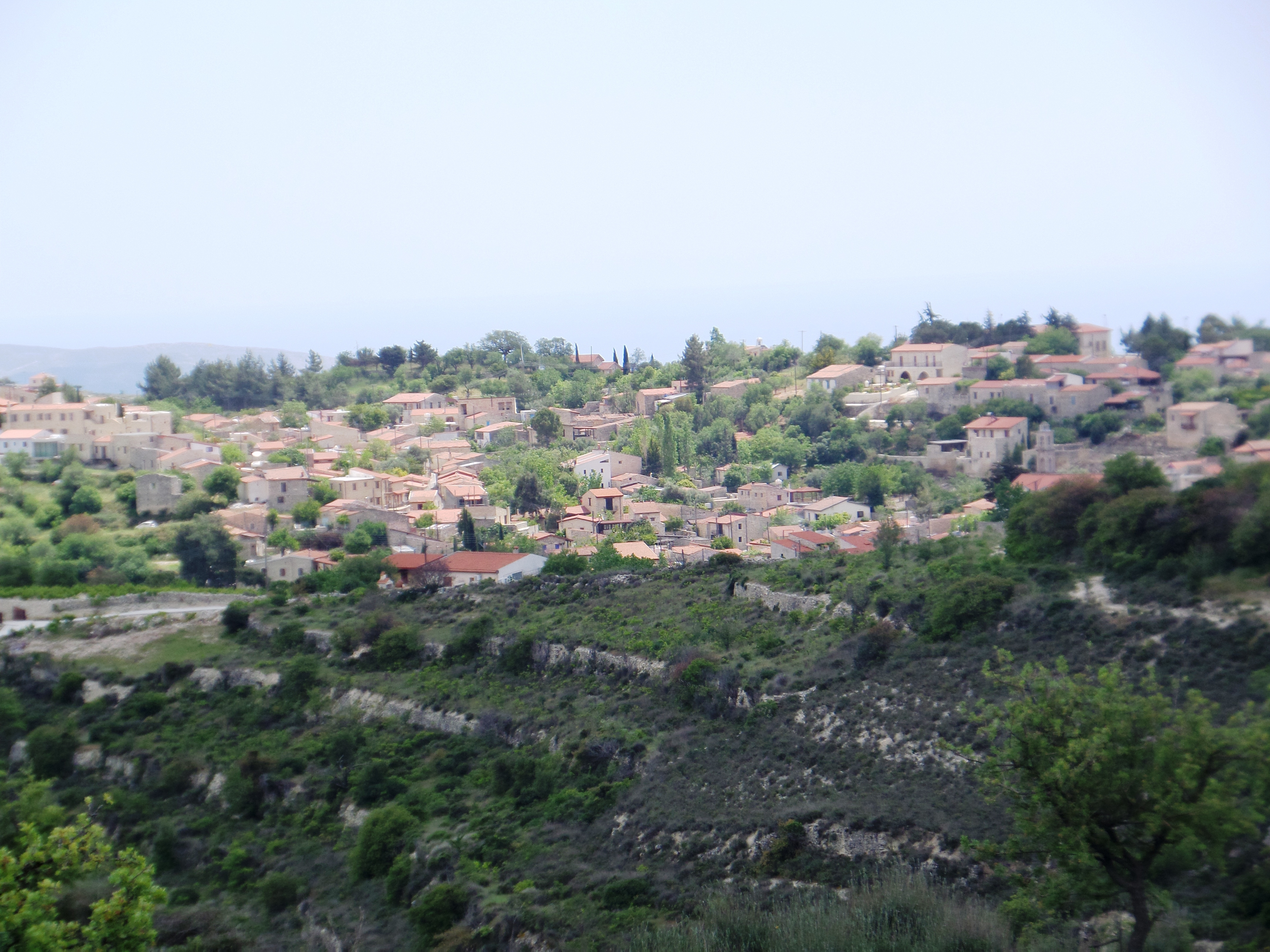 View of Lofou.